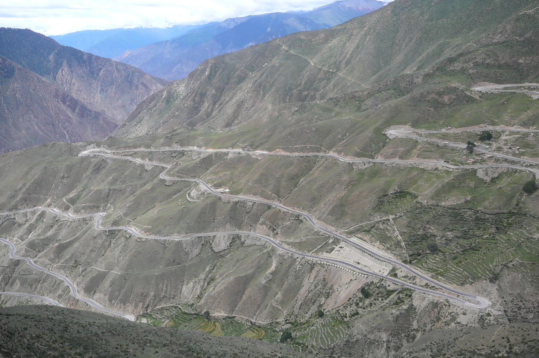 A bird's-eye view of the "Nujiang 72 turnings"(怒江72弯)